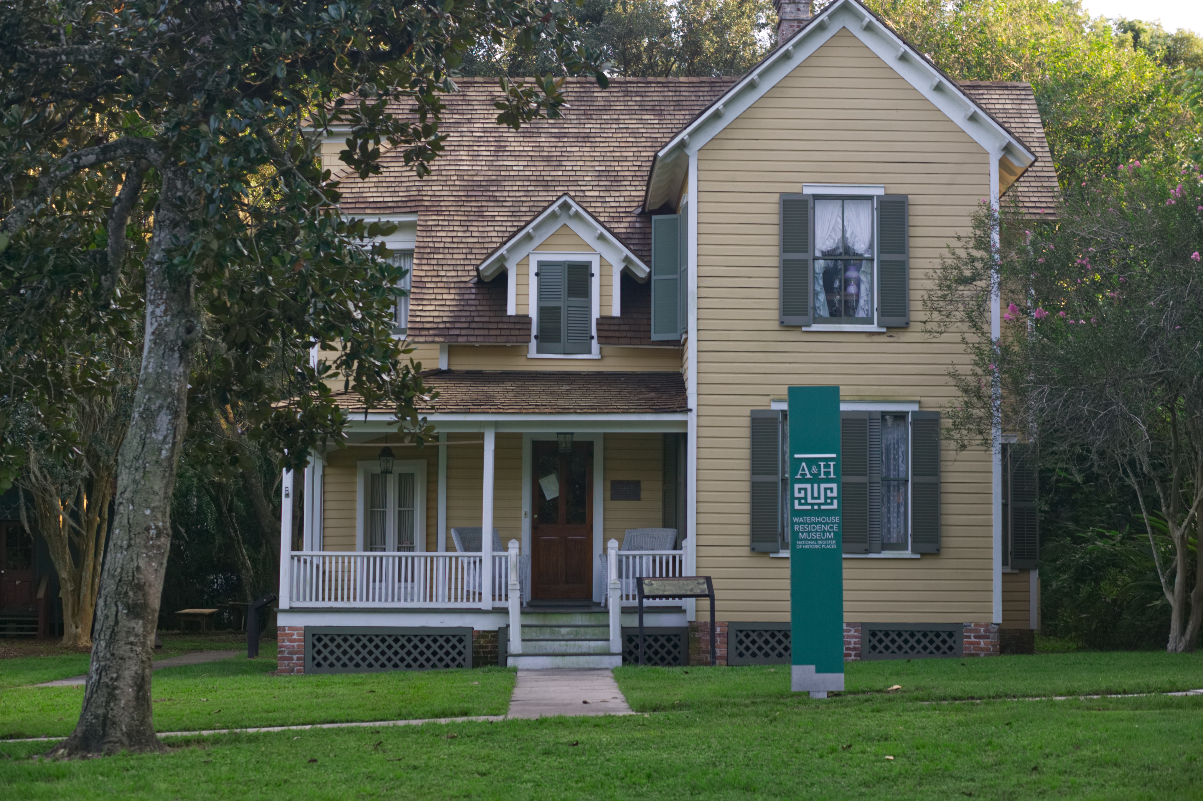 This is a photograph of the William H. Waterhouse House in Maitland Florida.